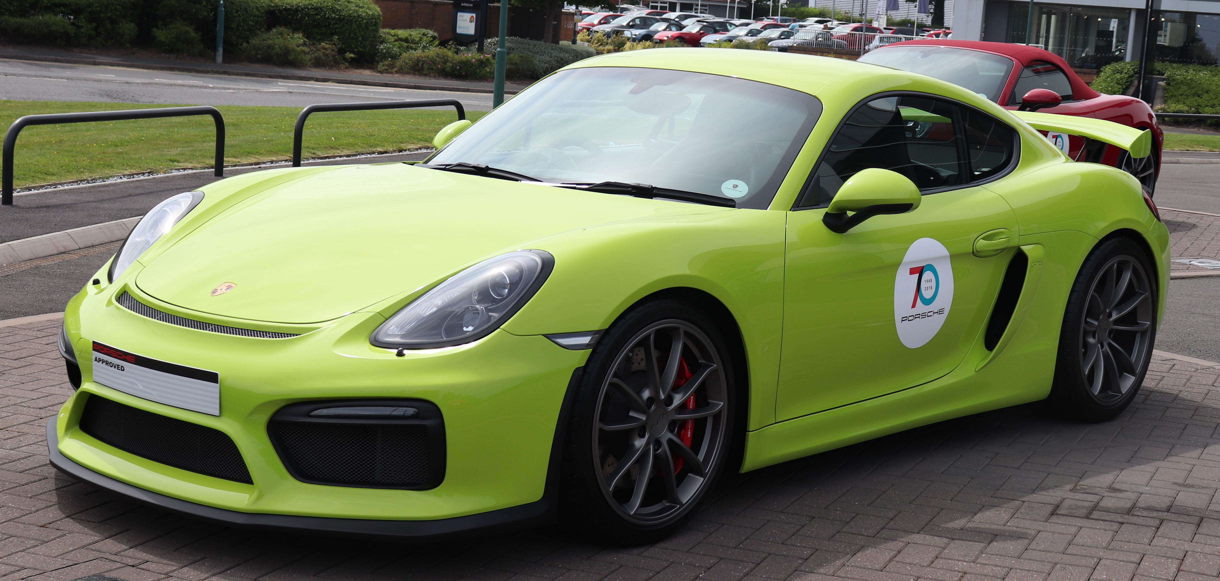 2018 Porsche Cayman GT4 3.8 Front Taken in Solihull